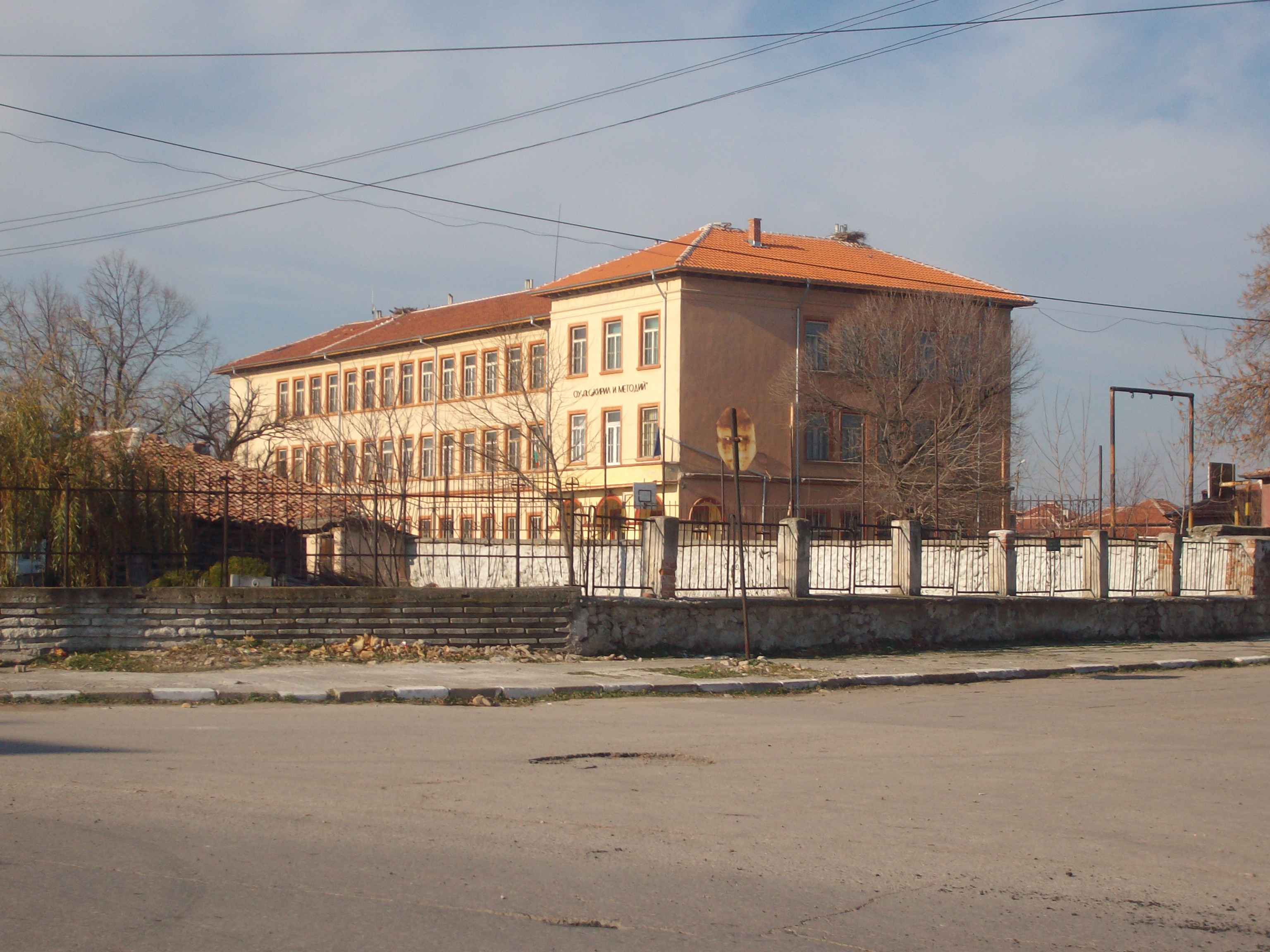 School "St. Cyril and Methodis" in village Dalbok izvor, Bulgaria